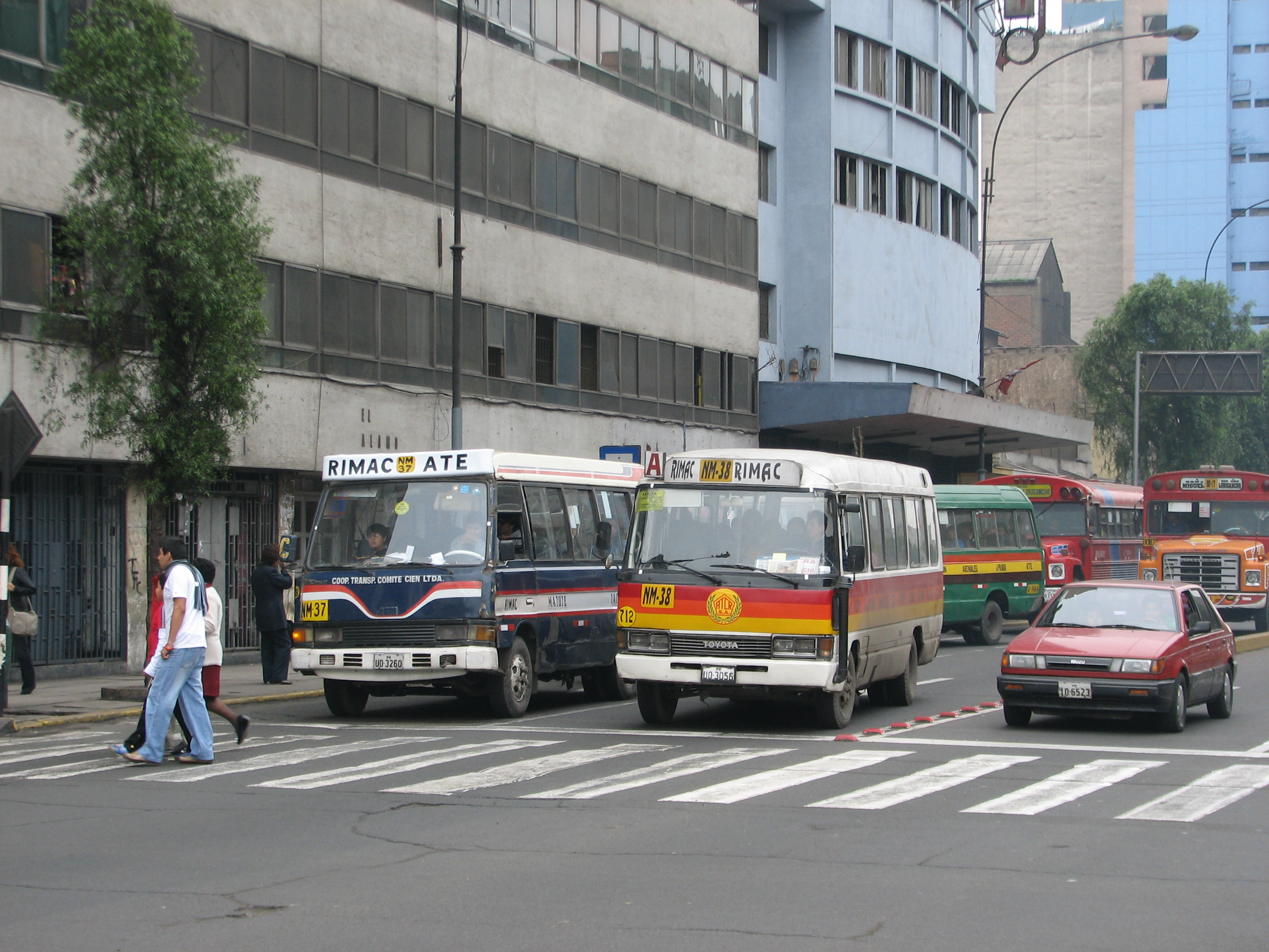 Public transport buses in Lima, Peru.